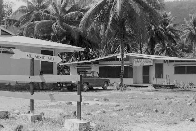 TTPI(Trust Territory of the Pacific Islands) Kosrae District Legislature Building